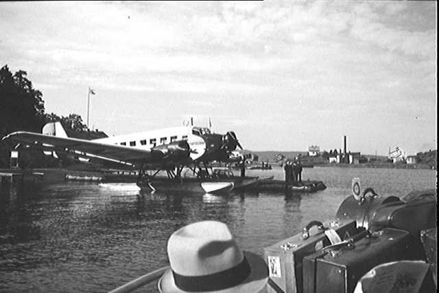 A Det Norske Luftfartsselskap Junker Ju 52 seaplane docked at Gressholmen Airport in Oslo, Norway.